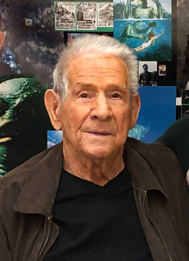 Ricou Browning at the Spooky Empire convention in Orlando, Florida in March 2019.